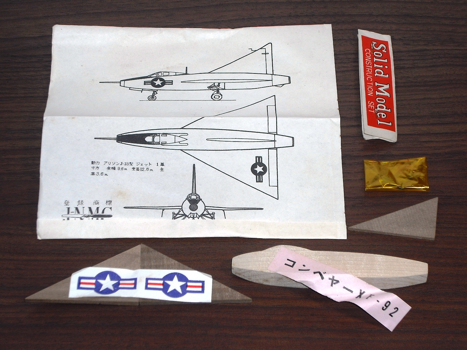 Japanese Solid Model construction set released in 1950s